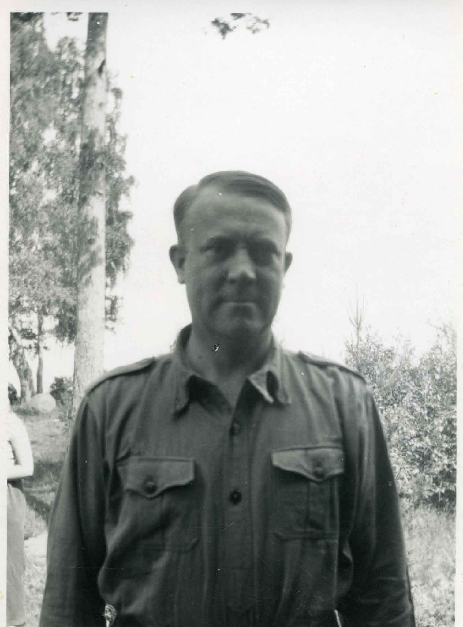 RA/PA-0781/Fd/0004/0569 1179